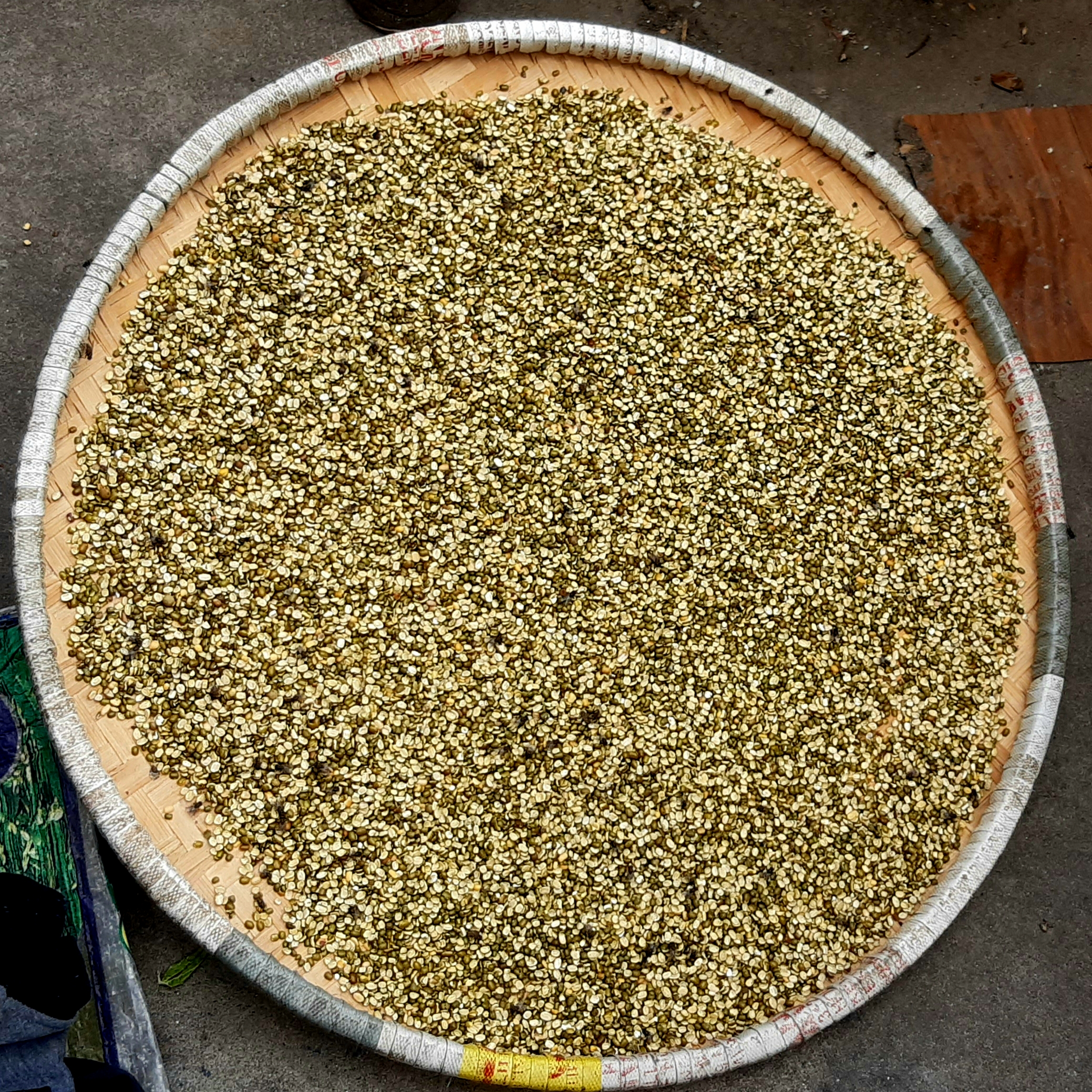 Pulse in Nanglo